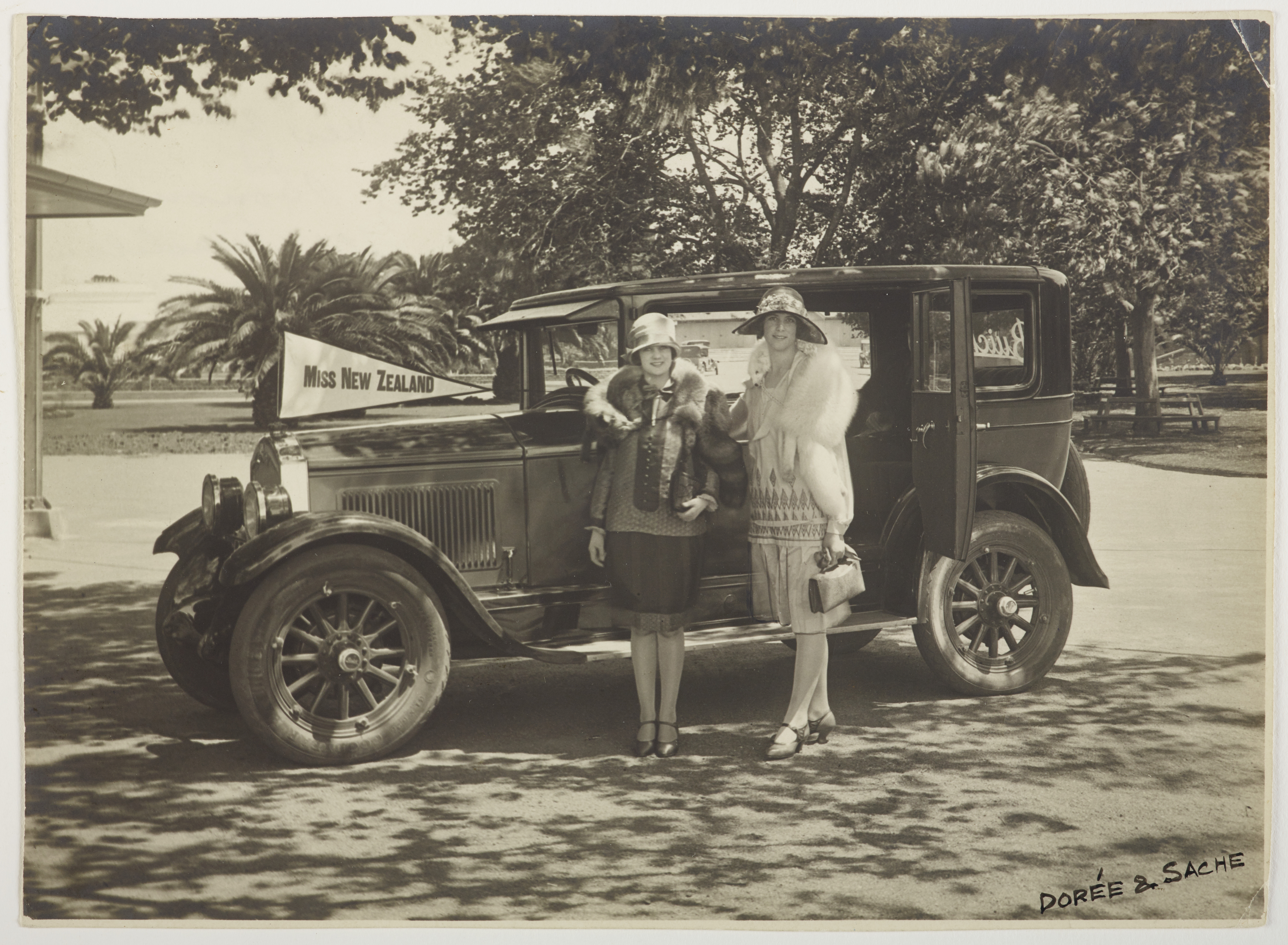 General-Motors-advertisement. Miss New Zealand 1927 at Ellerslie with a new Buick and companion